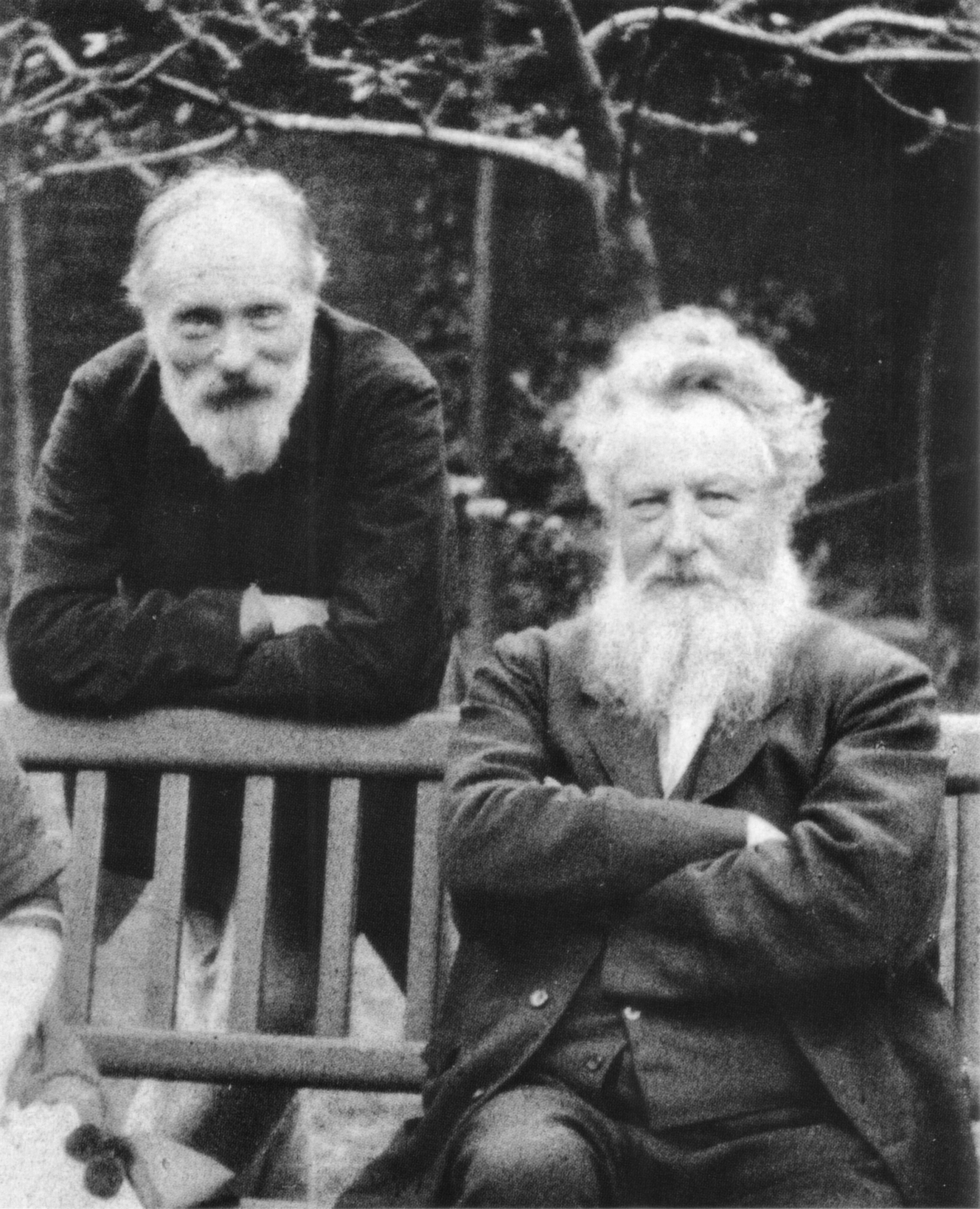 Edward Burne-Jones (left) and William Morris (right) in the garden of Burne-Jones's home the Grange, Fulham, 1890.